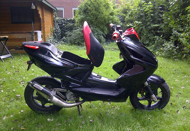 Yamaha Aerox